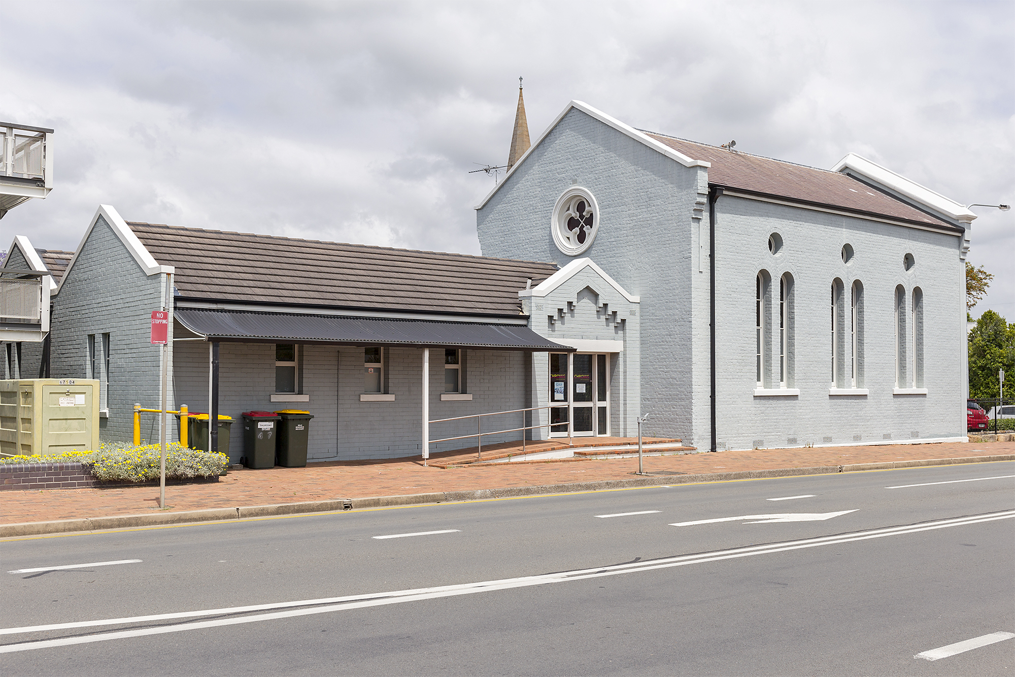 Former synagogue in Maitland.